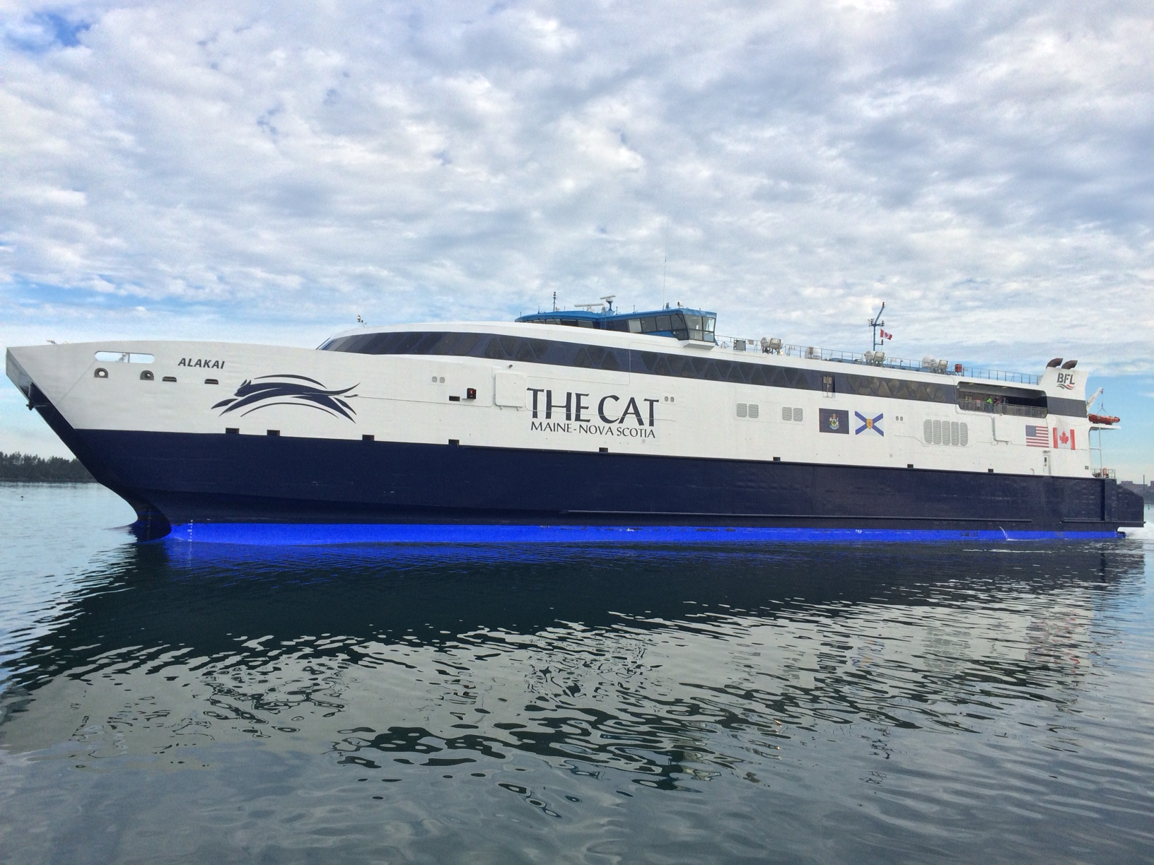 The Cat Ferry leaving Yarmouth, Nova Scotia.